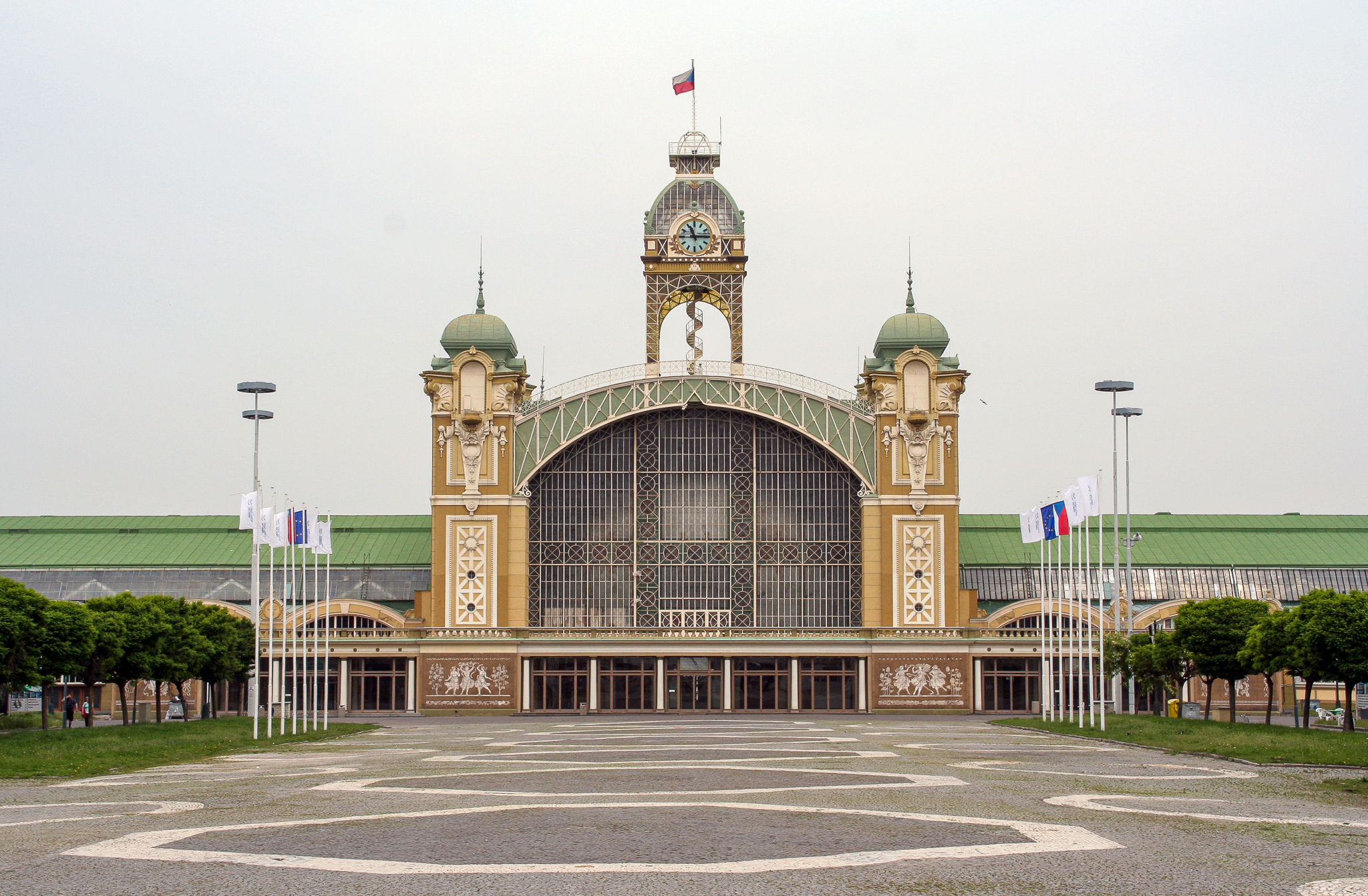 We found this place by accident while taking a number 5 Tram to the Museum of modern and contemporary Arts at the Veletrzni Palace. Its quite an impressive building